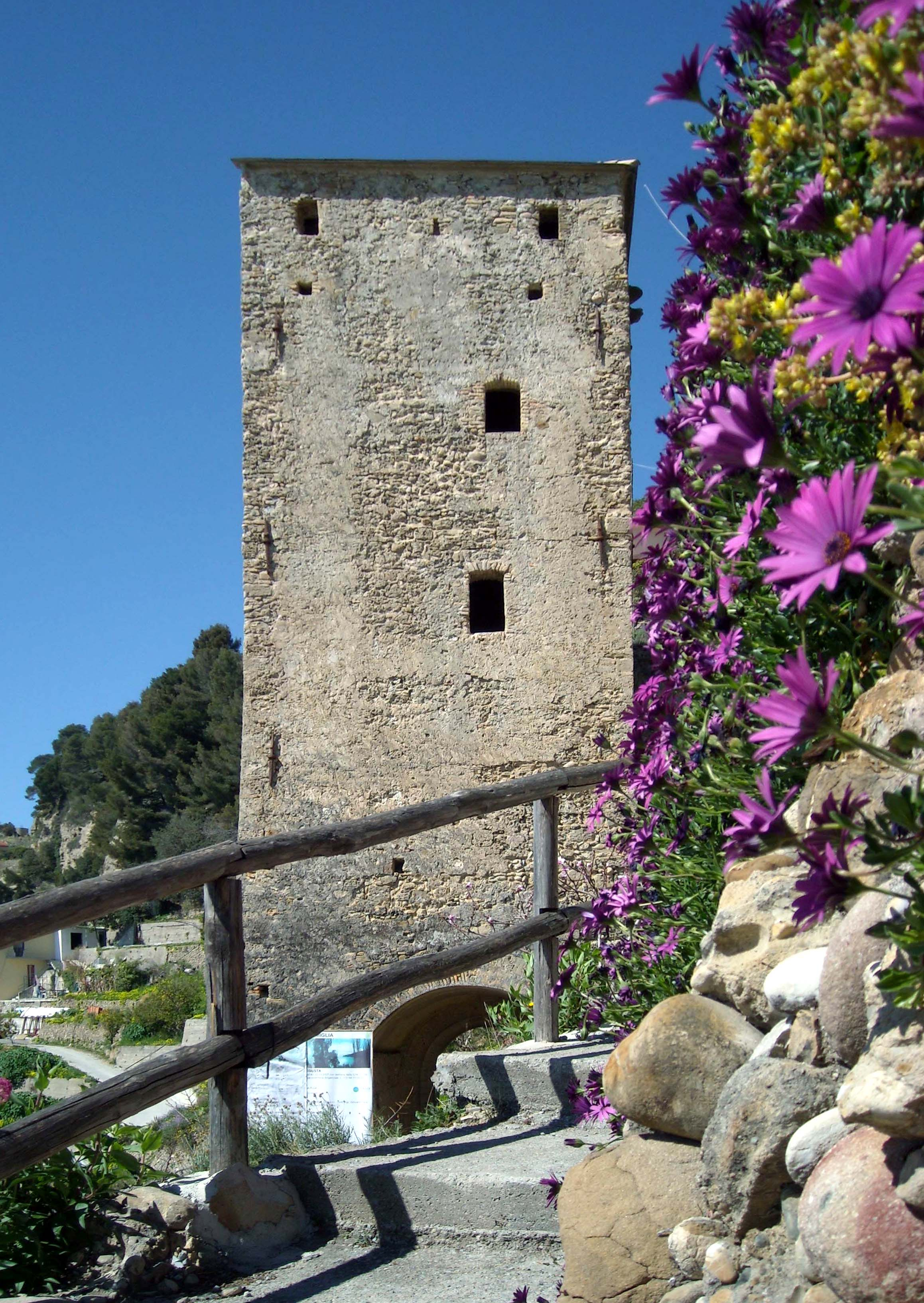 View of the side east of the majestic Canarda door, built in the XIII th century, outside of walls of town-walls of Ventimiglia, constructed on the ancient tracing of the way Julia Augusta that carried in Gallia.